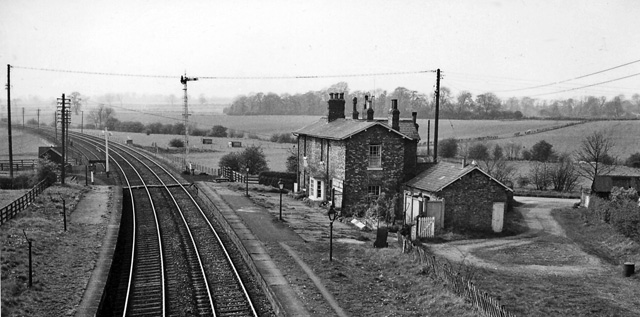 Barton Hill Station (converted), Near to Barton-le-Willows, North Yorkshire, Great Britain. View westward, towards York. This is one of the several local stations on the main line York - Malton - Scarborough that were closed to passengers on 22/9/30. Barton Hill, which seems to have been converted to private house by 1961, remained open for Goods until 10/8/64 -- and of course the main line survives.